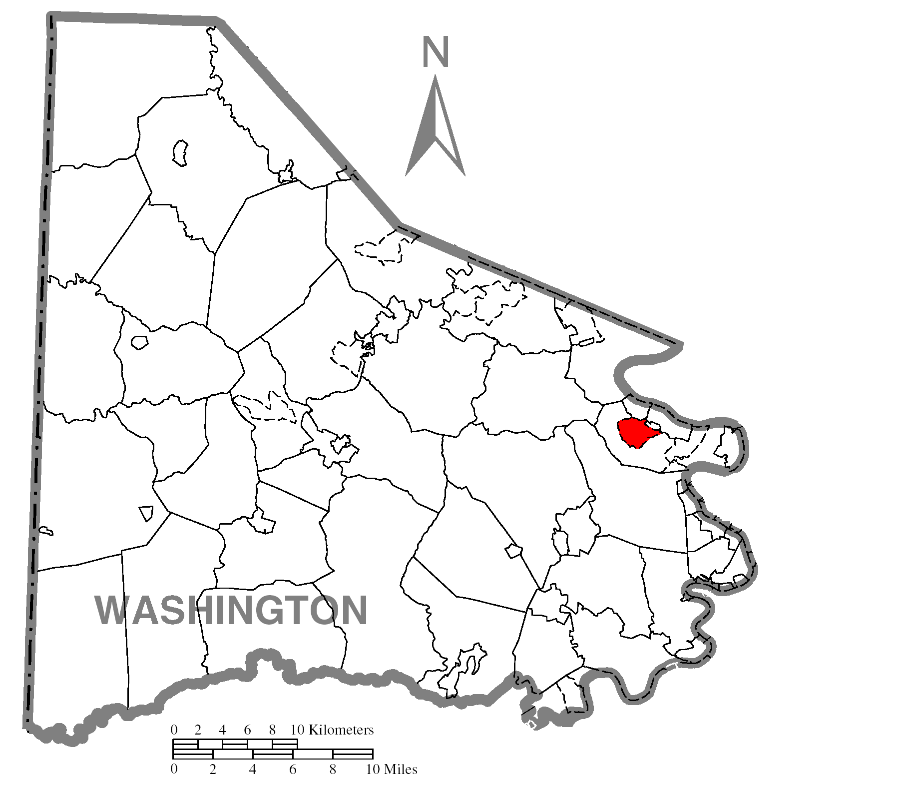 Map of Washington County higlighting Baidland.